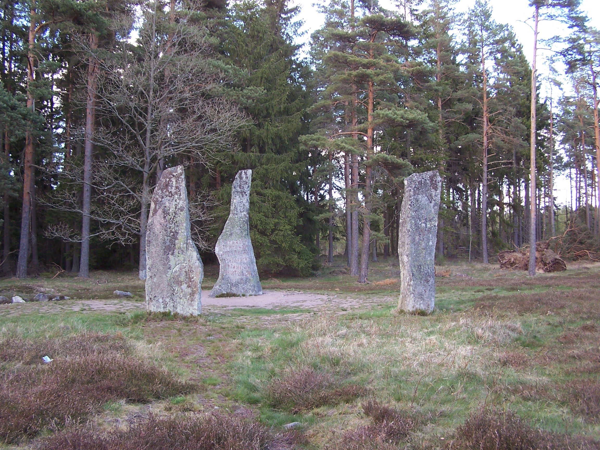 Björketorpsstenen (Björketorp Stone) at Björketorp, municipality of Ronneby